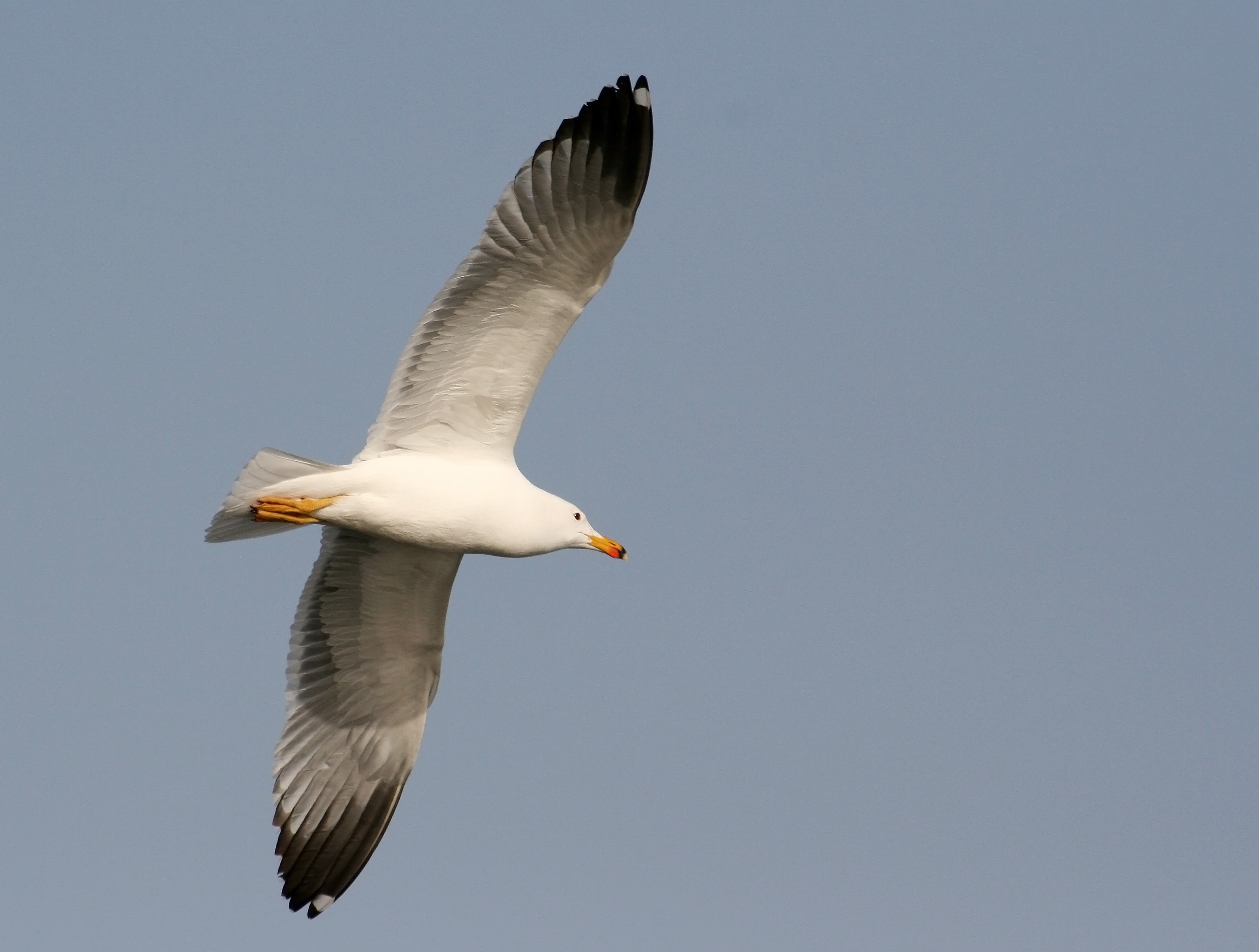 Armenian Gull in flight, near Sevan lake